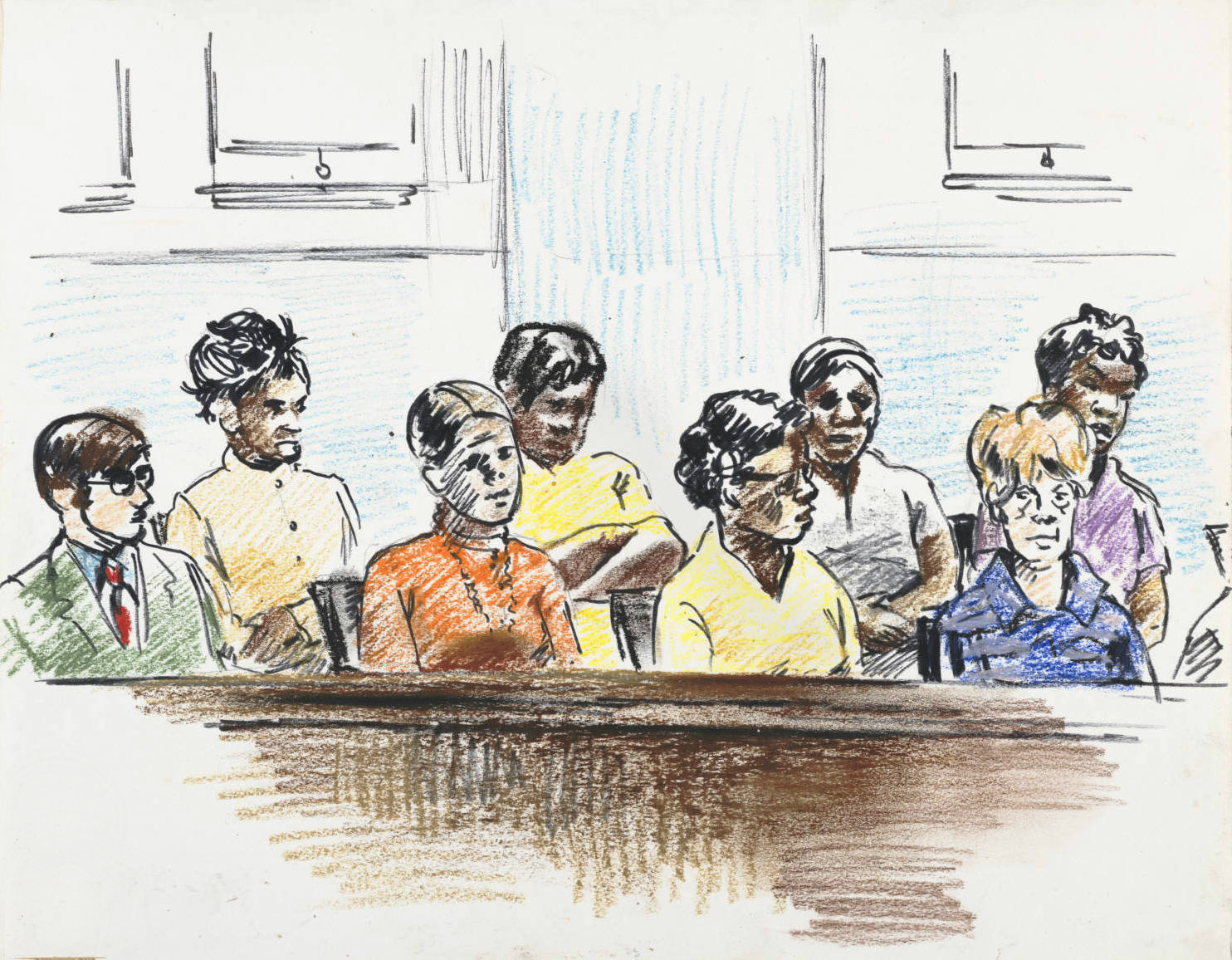 Sketches and drawings by Templeton of the principal participants in the presentation phase of the trial in Connecticut Superior Court of Black Panther Party chairman Bobby Seale and Black Panther Party organizer Ericka Huggins for kidnapping, murder, and.